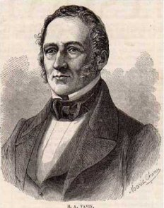 Alexis Vavin (1792-1863), gravure par Maria Chenu vers 1850.